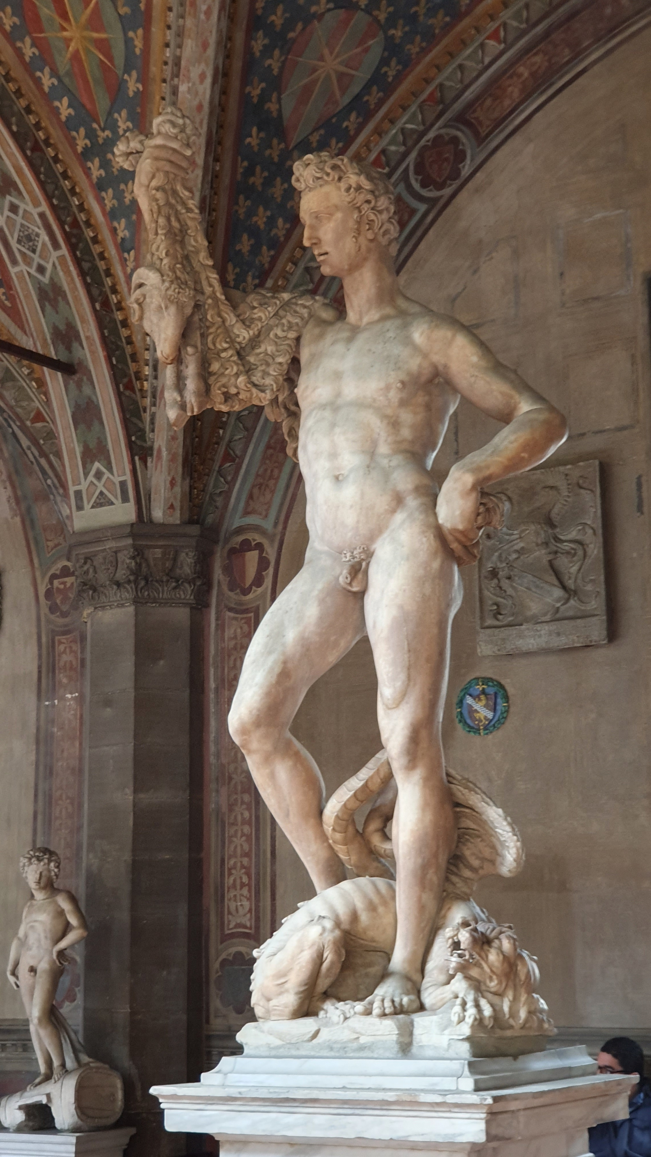 Jason by Pietro Francavilla